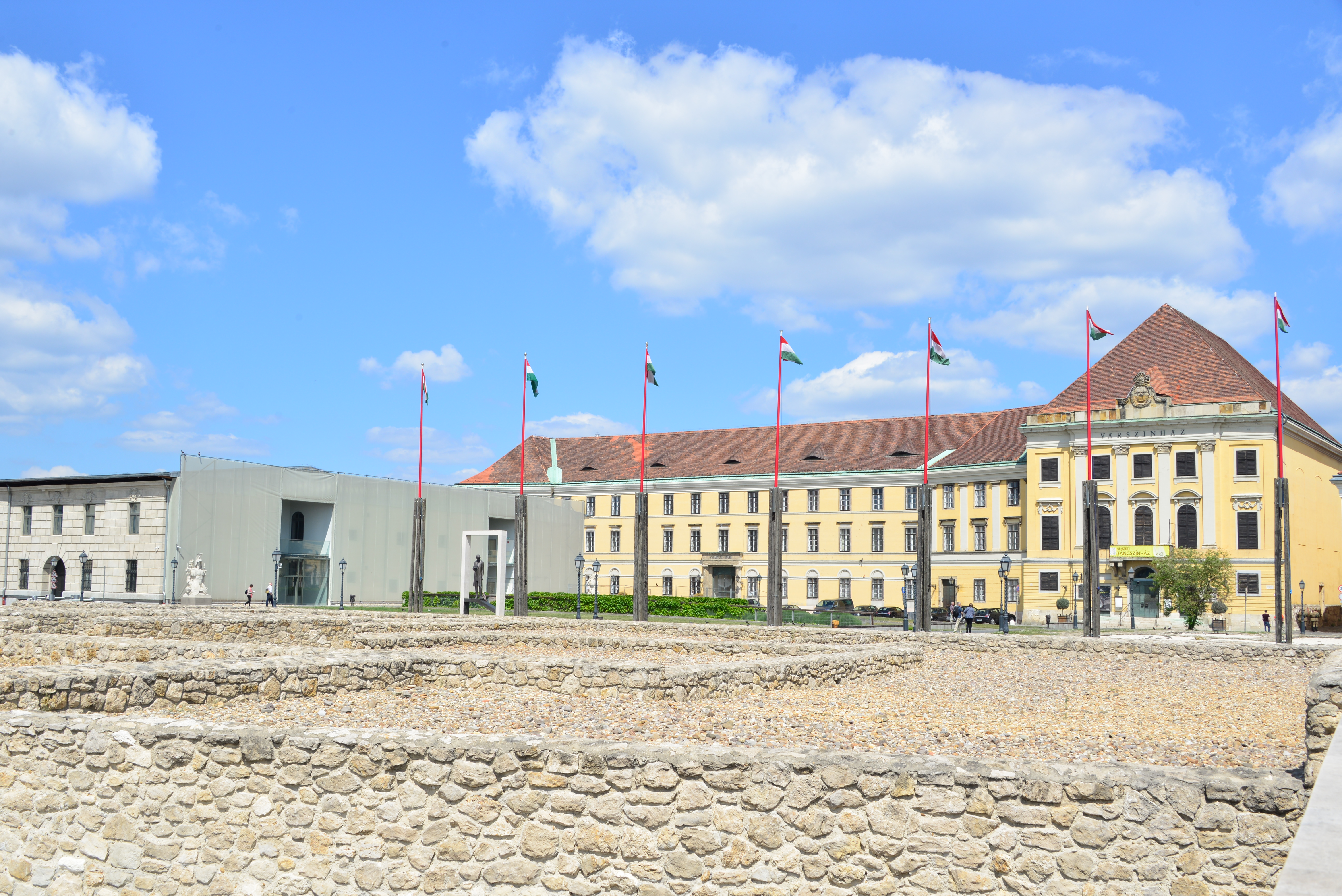 Budapest, Castle Hill, 1014 Hungary